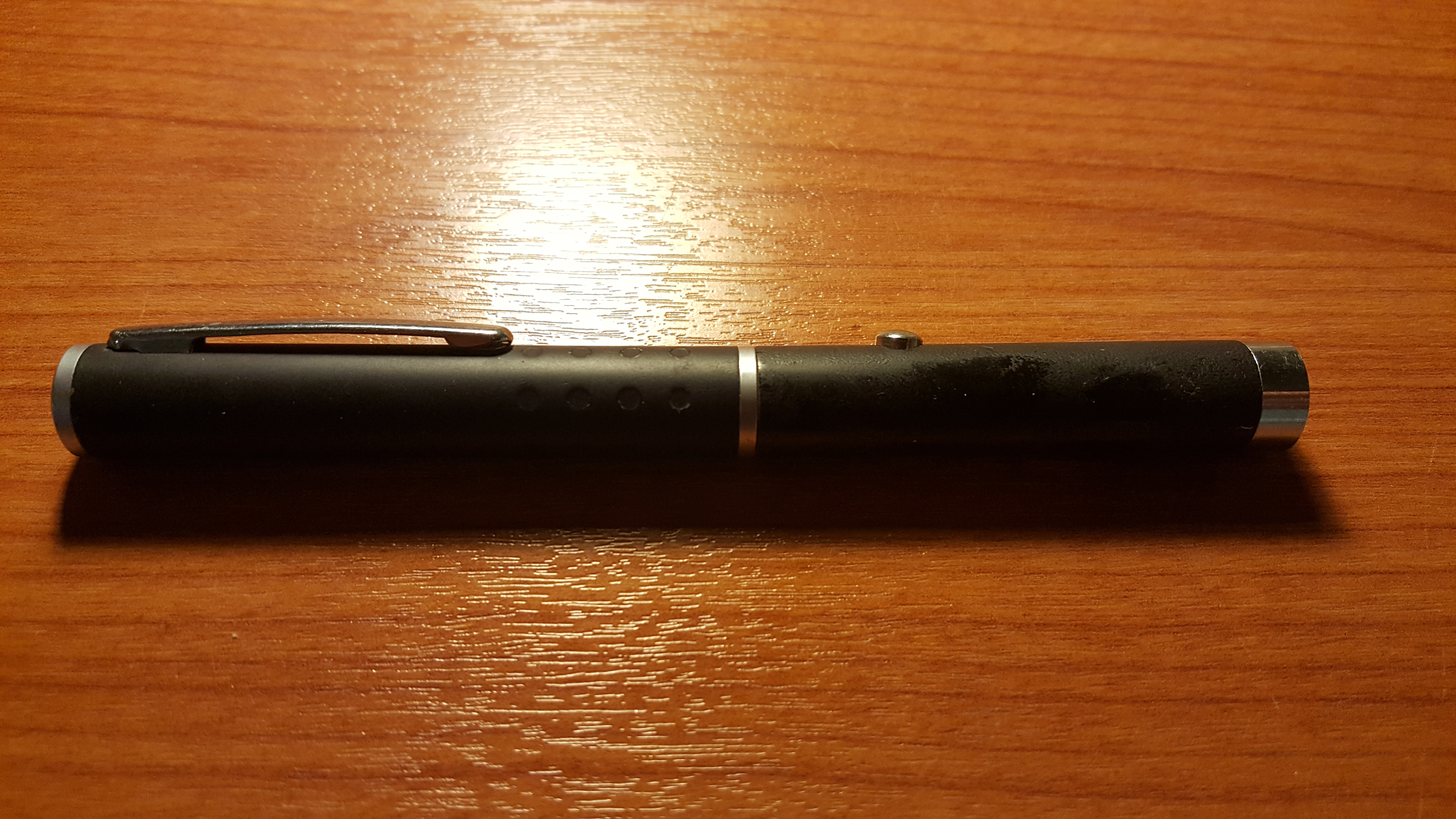 Common laser